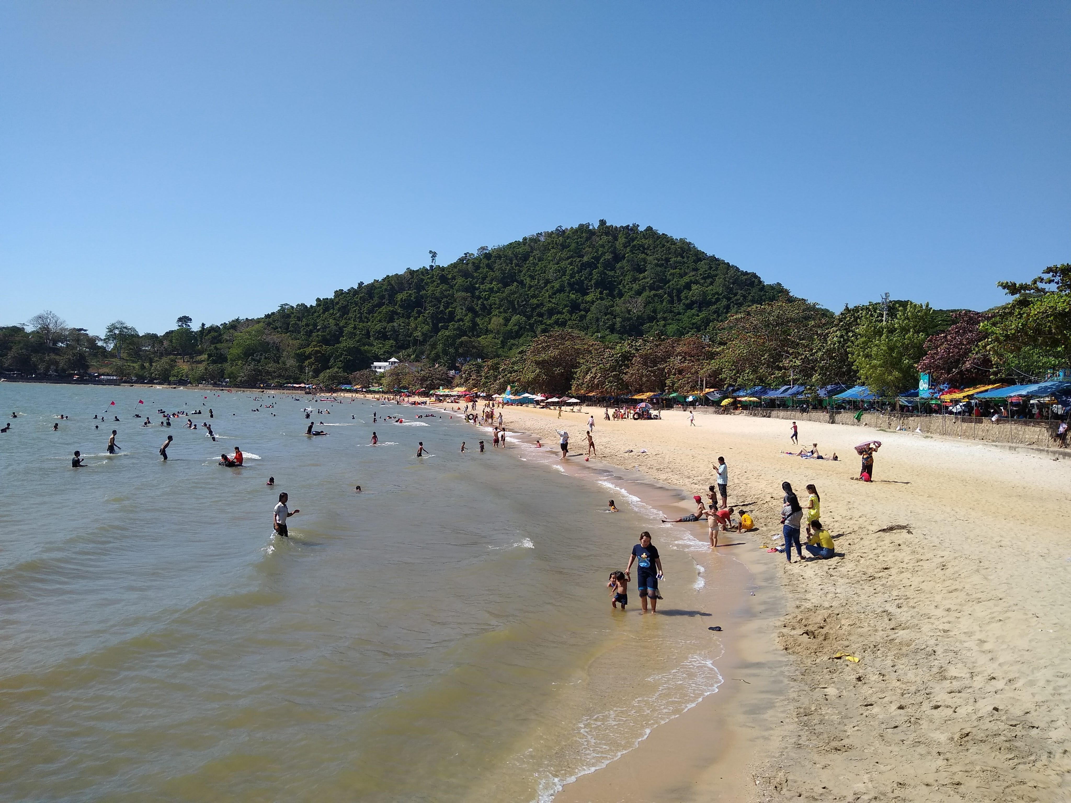 Kep Beach in January 2020